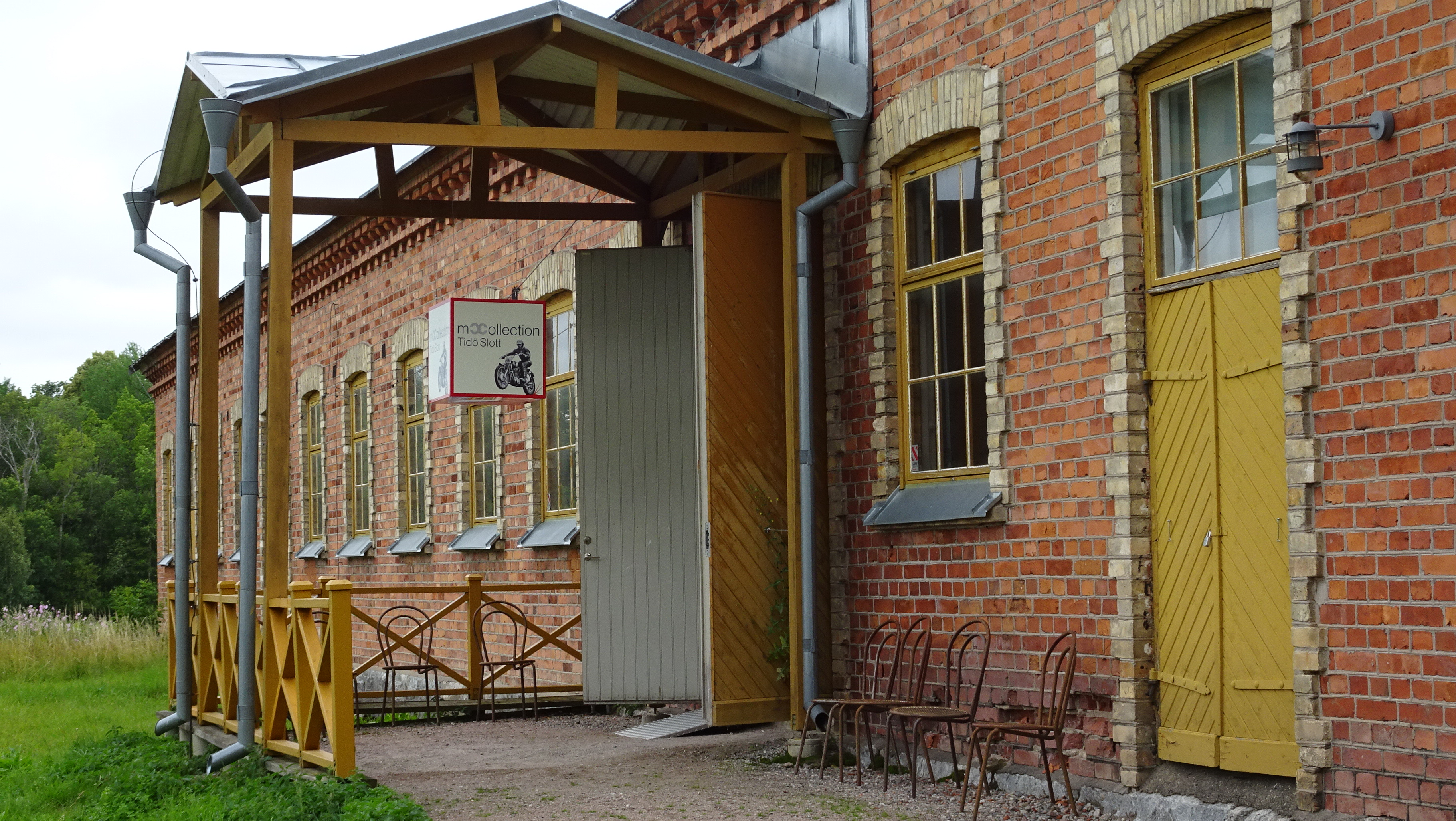 The entrance to MC Collection museum in Tidö, near Västerås in Sweden.